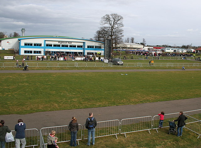 The Highland Hall Exhibition Centre This is the largest of the three exhibition halls of the Royal Highland Showground.